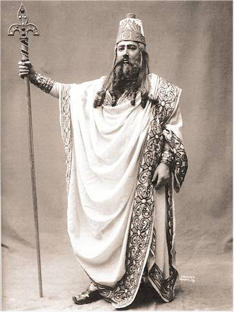 French opera singer Hector Dufranne (1870-1951) as High priest in "Samson et Dalila" by Saint-Saëns